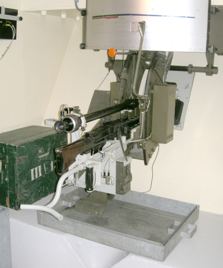 Mg 51 auf Festungslafette